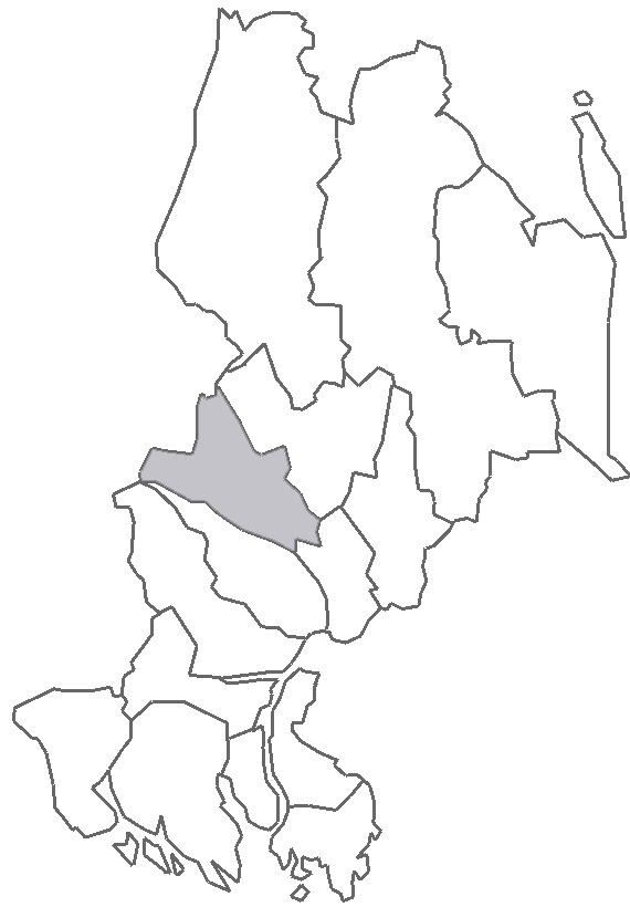 Map describing the location of Bälinge Hundred in Uppsala County, Sweden.